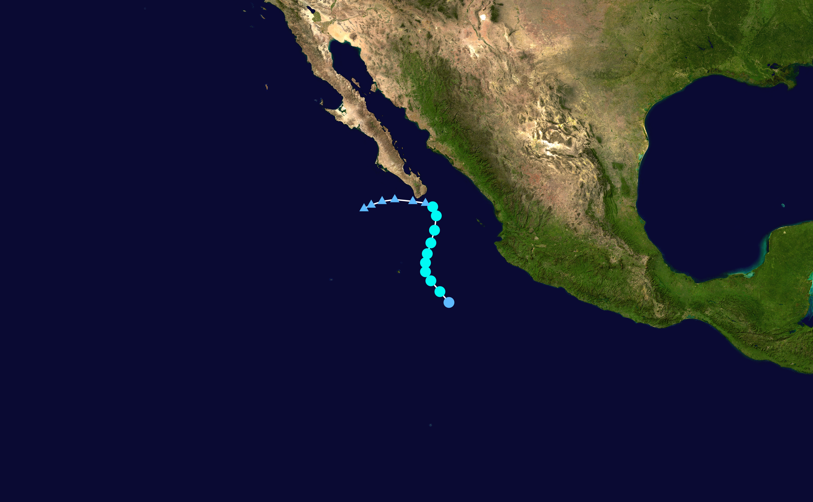 Track map of Tropical Storm Patricia of the 2009 Pacific hurricane season. The points show the location of the storm at 6-hour intervals. The colour represents the storm's maximum sustained wind speeds as classified in the Saffir–Simpson scale (see below), and the shape of the data points represent the nature of the storm, according to the legend below. Saffir–Simpson scale Tropical depression≤38 mph≤62 km/h Category 3111–129 mph178–208 km/h Tropical storm39–73 mph63–118 km/h Category 4130–156 mph209–251 km/h Category 174–95 mph119–153 km/h Category 5≥157 mph≥252 km/h Category 296–110 mph154–177 km/h Unknown Storm type Tropical cyclone Subtropical cyclone Extratropical cyclone / Remnant low / Tropical disturbance / Monsoon depression